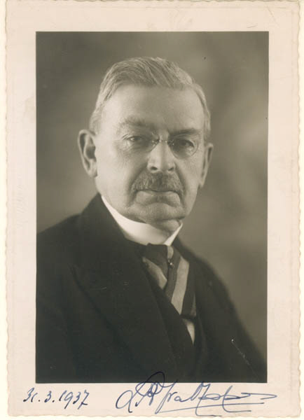 Signed portrait of Leopold van Oppen, mayor of Maastricht, Netherlands. Collection: RHCL, Maastricht, ref. nr. 28621.